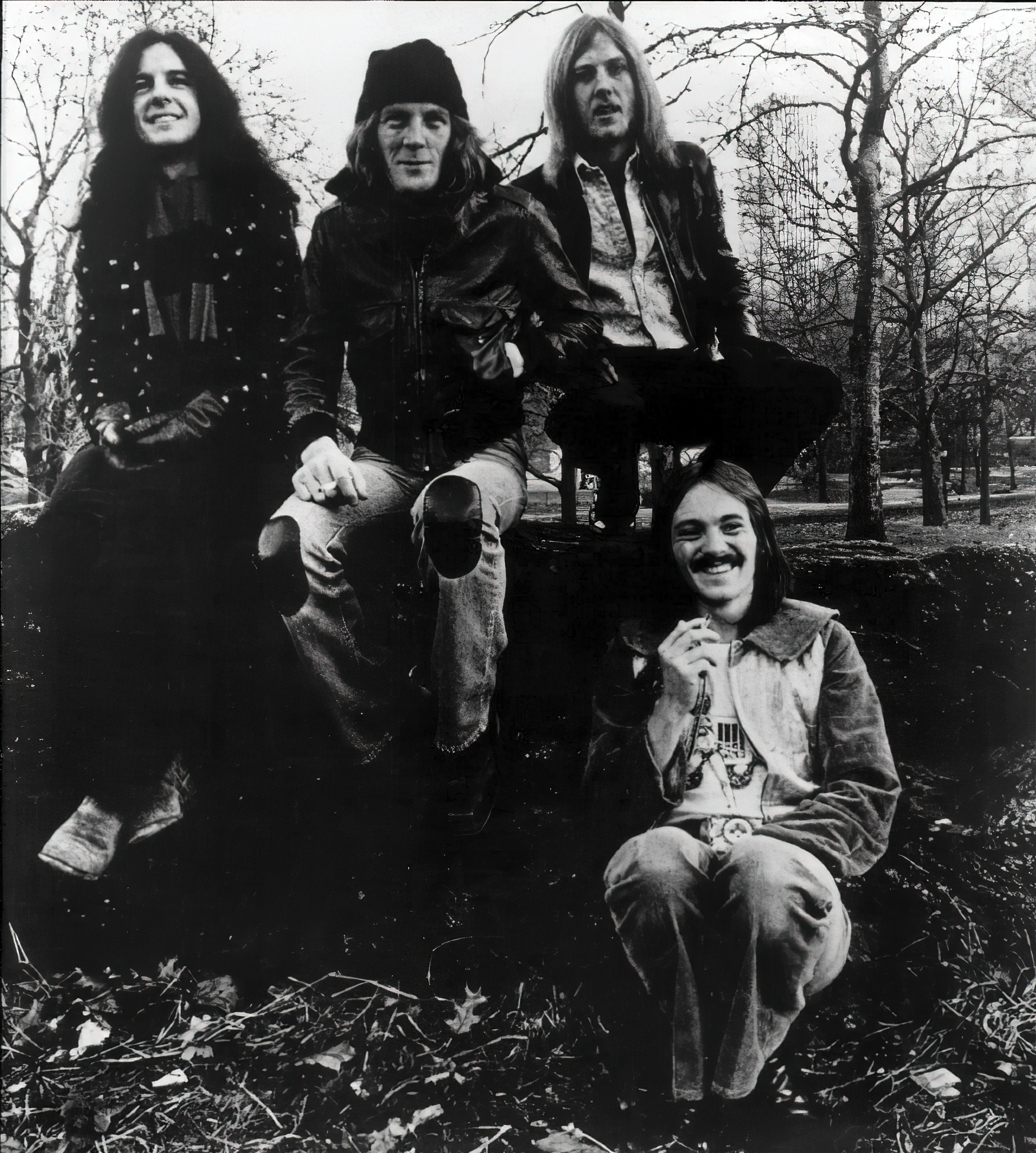 Publicity photo of the music group Humble Pie.